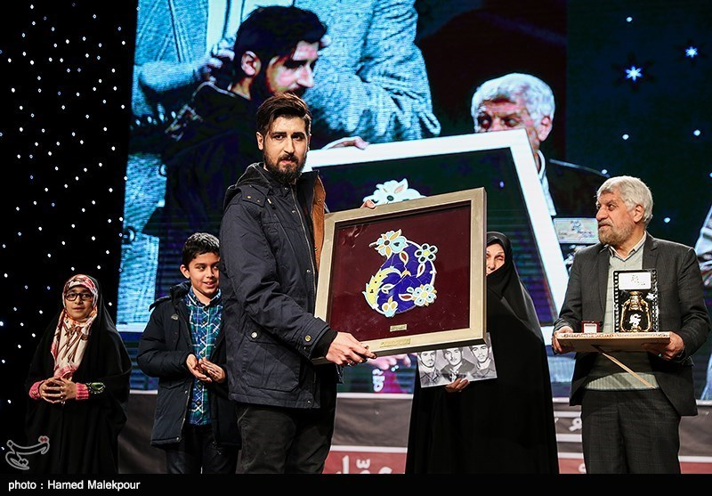 Hamed Zamani